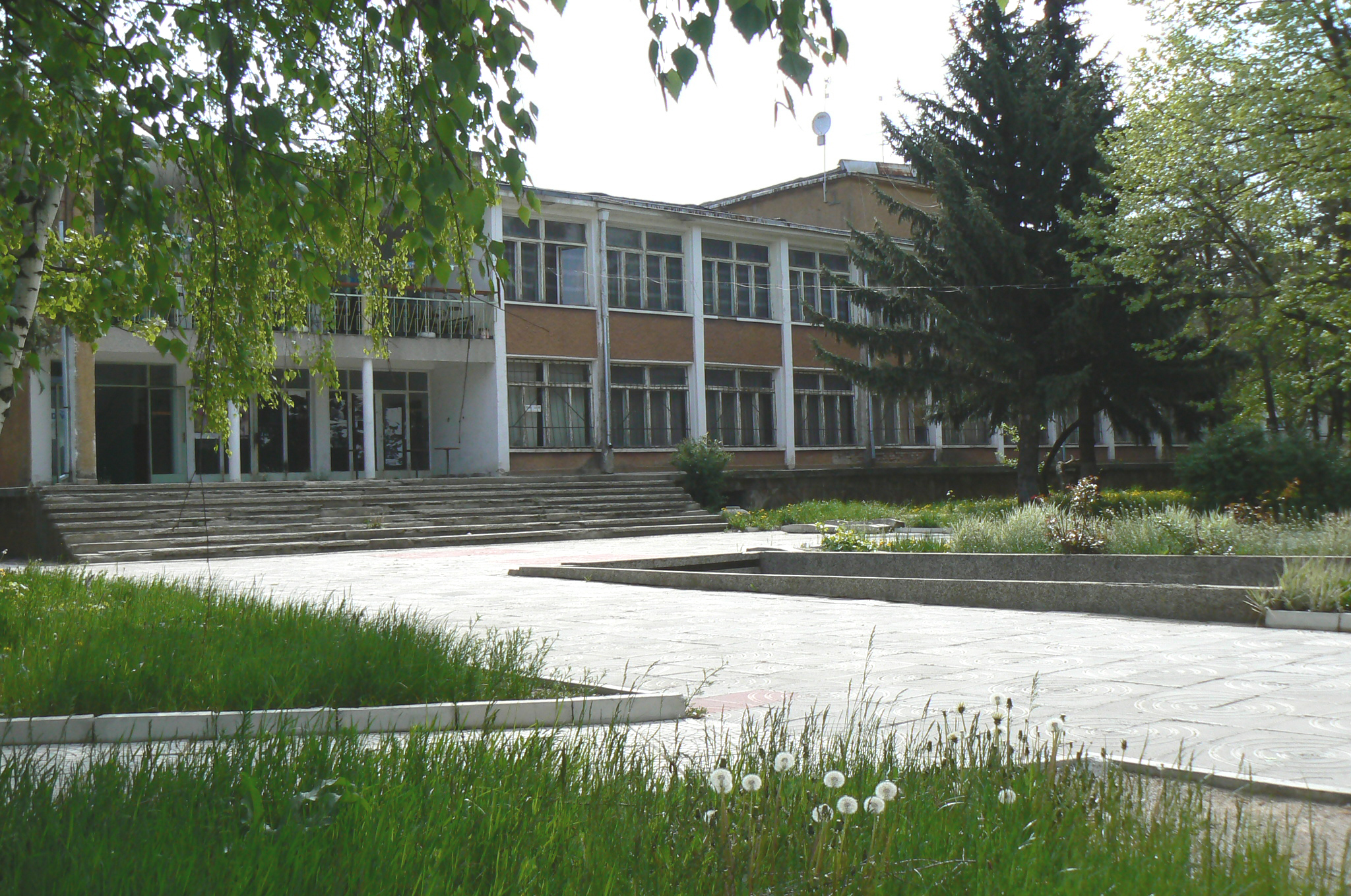 The town library in Batanovtsi, Bulgaria